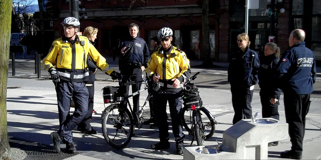 RCMP and CBSA officers in Vancouver, British Columbia